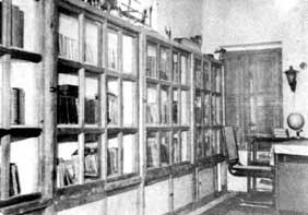 C. N. Annadurai's private library in his native town Kanchipuram. It was taken before 1940. This image holds high significance considered Anna's huge attraction and interest of reading large volume of books from which he gained knowledge on world history, science and beyond.